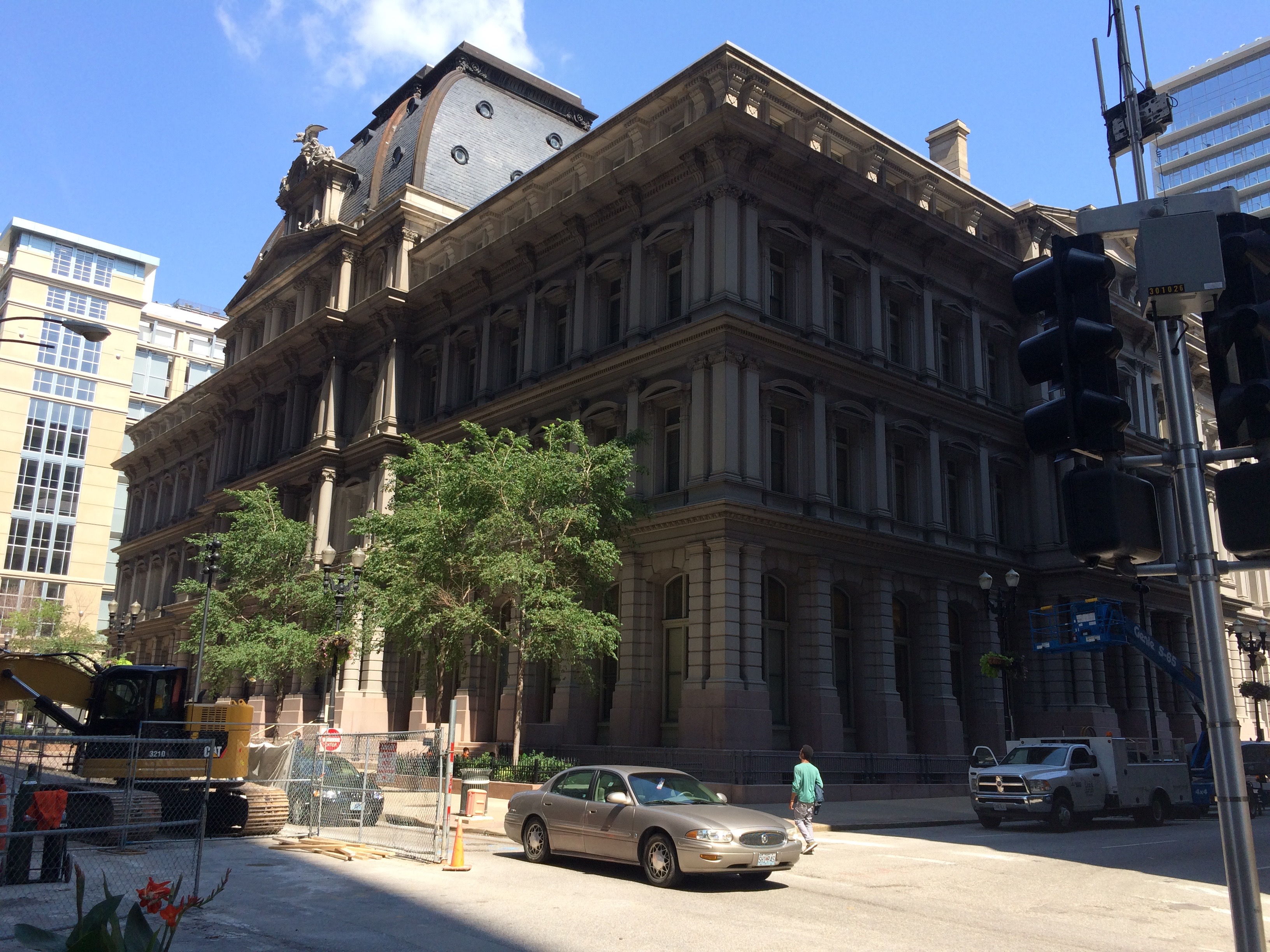 Photo taken from the south-east corner of the Old Post Office in St. Louis, Missouri.